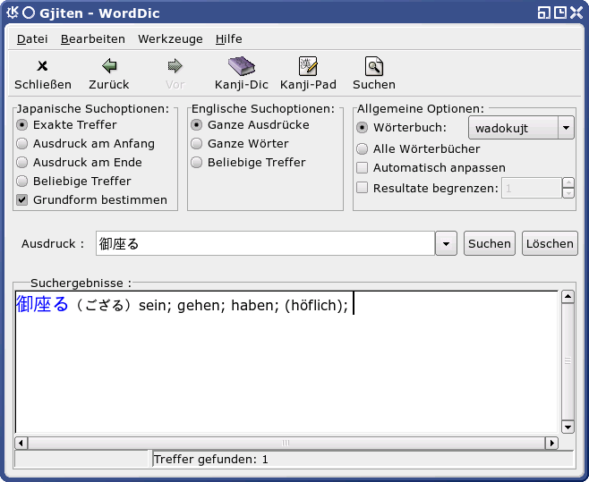 screenshot of gjiten wordDic on linux